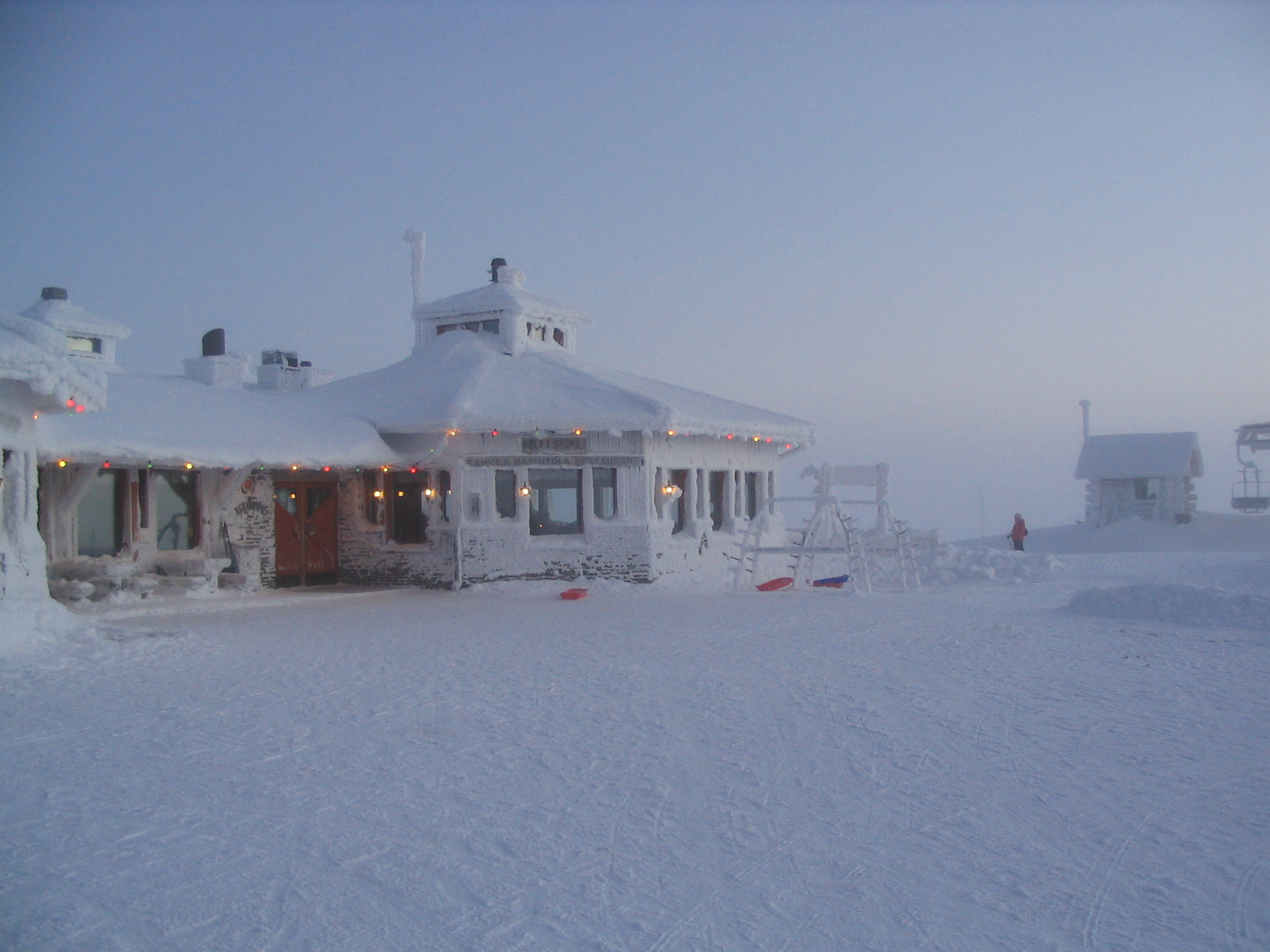 Restaurant Huippu in the mountain Kaunispää, Inari, Finland.